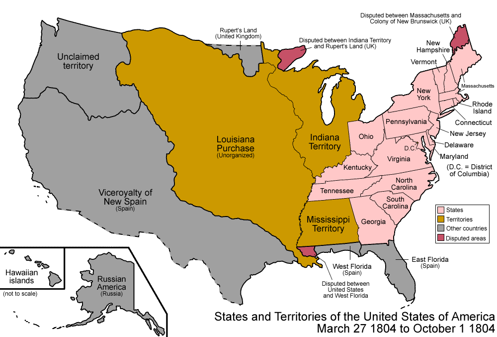 Map of the states and territories of the United States as it was from March 1804 to October 1804. On March 27 1804, the lands previously ceded by Georgia were added to Mississippi Territory. On October 1 1804, the Louisiana Purchase was designated the District of Louisiana, with a small portion organized as Orleans Territory; this portion included a region disputed with New Spain.